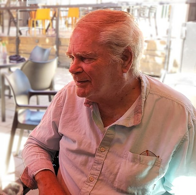 Audio engineer Bob Cavin at an outdoor brewpub in Sonoma in September 2019.